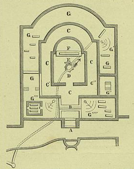 Scheme of the Milreu roman temple, in Algarve, Portugal. This drawing was adapted from a 1877 archeological plant of Milreu, made by Estácio da Veiga (1828 - 1891). This image was published on the Occidente magazine No. 96, of 21st August 1881, and scanned by the Hemeroteca Municipal de Lisboa.